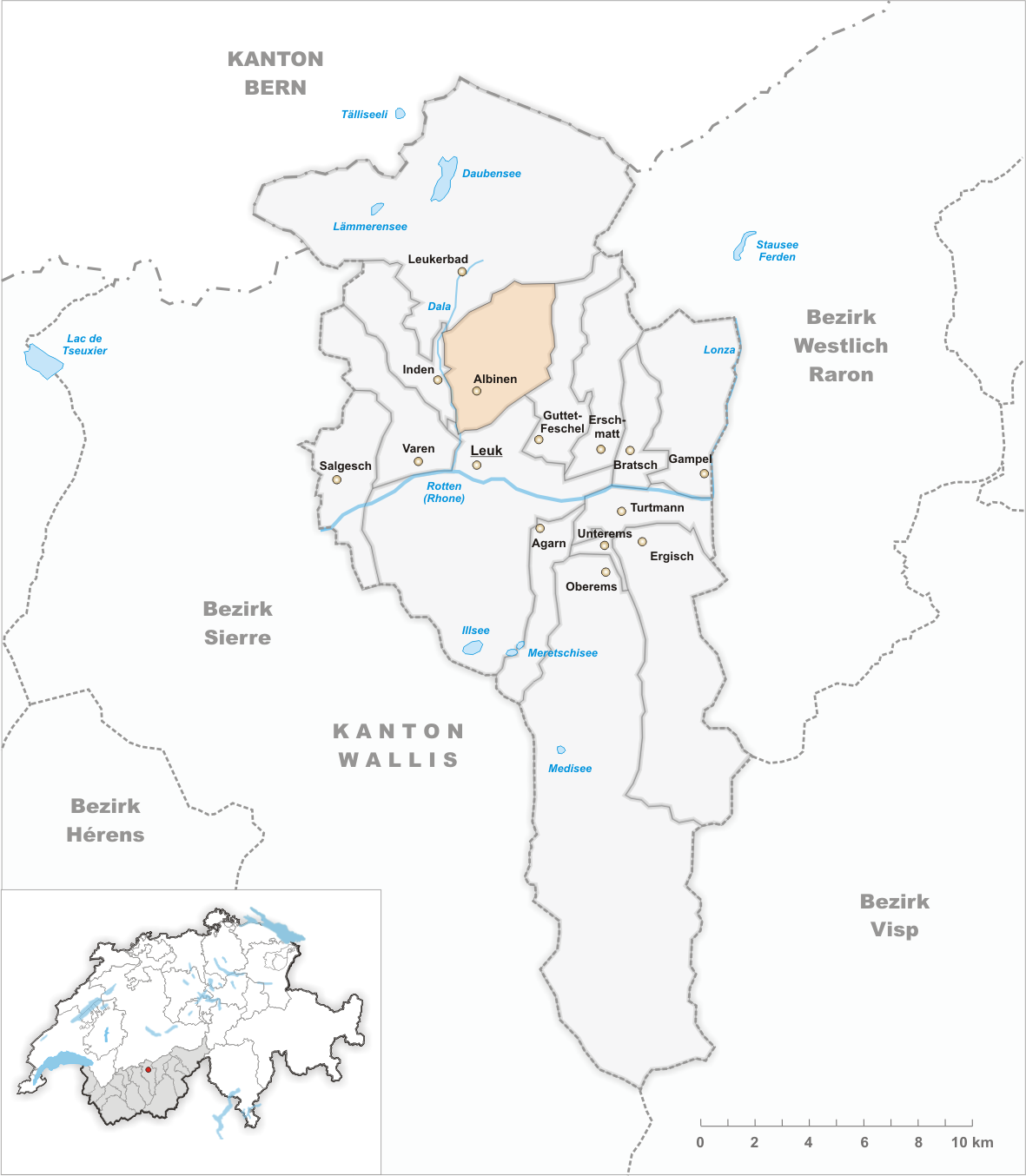 Municipality Albinen